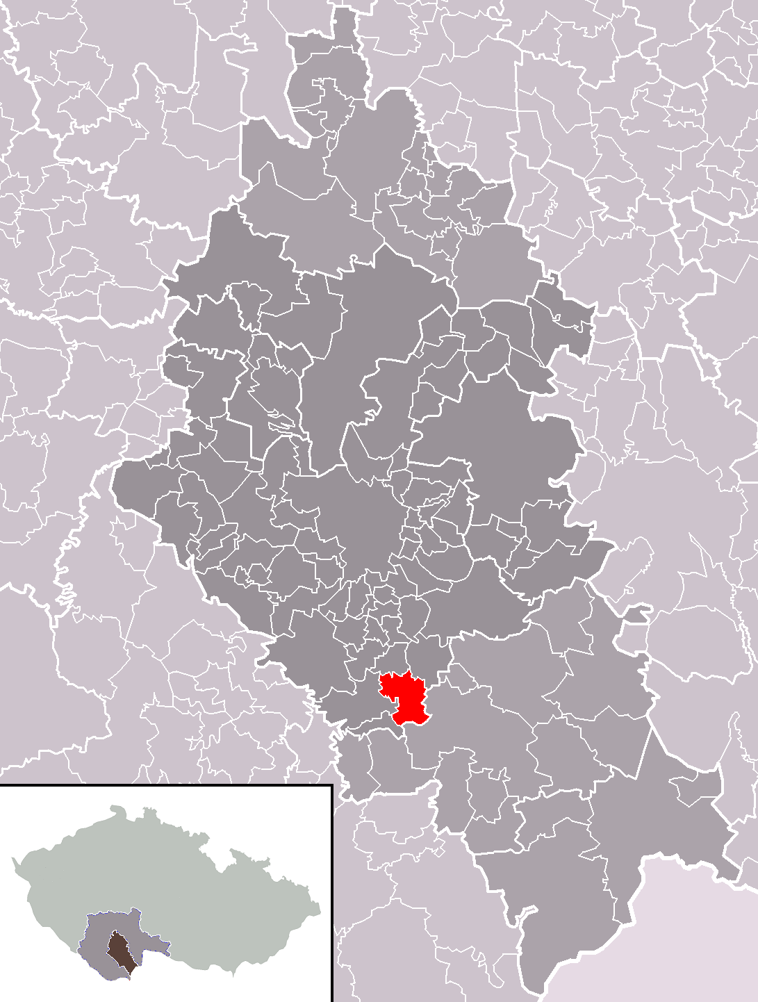 Location of Komařice municipality within České Budějovice District and administrative area of České Budějovice as a Municipality with Extended Competence.